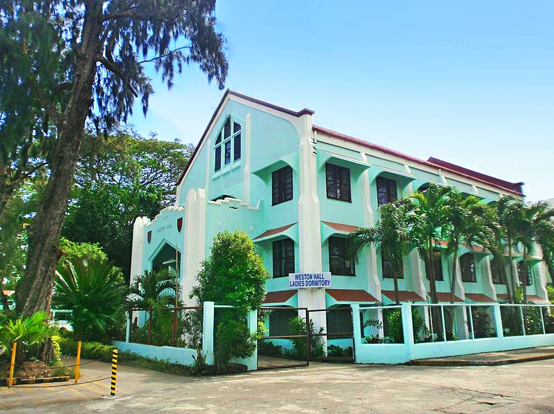 Weston Hall, a women's dormitory on the main campus of Central Philippine University